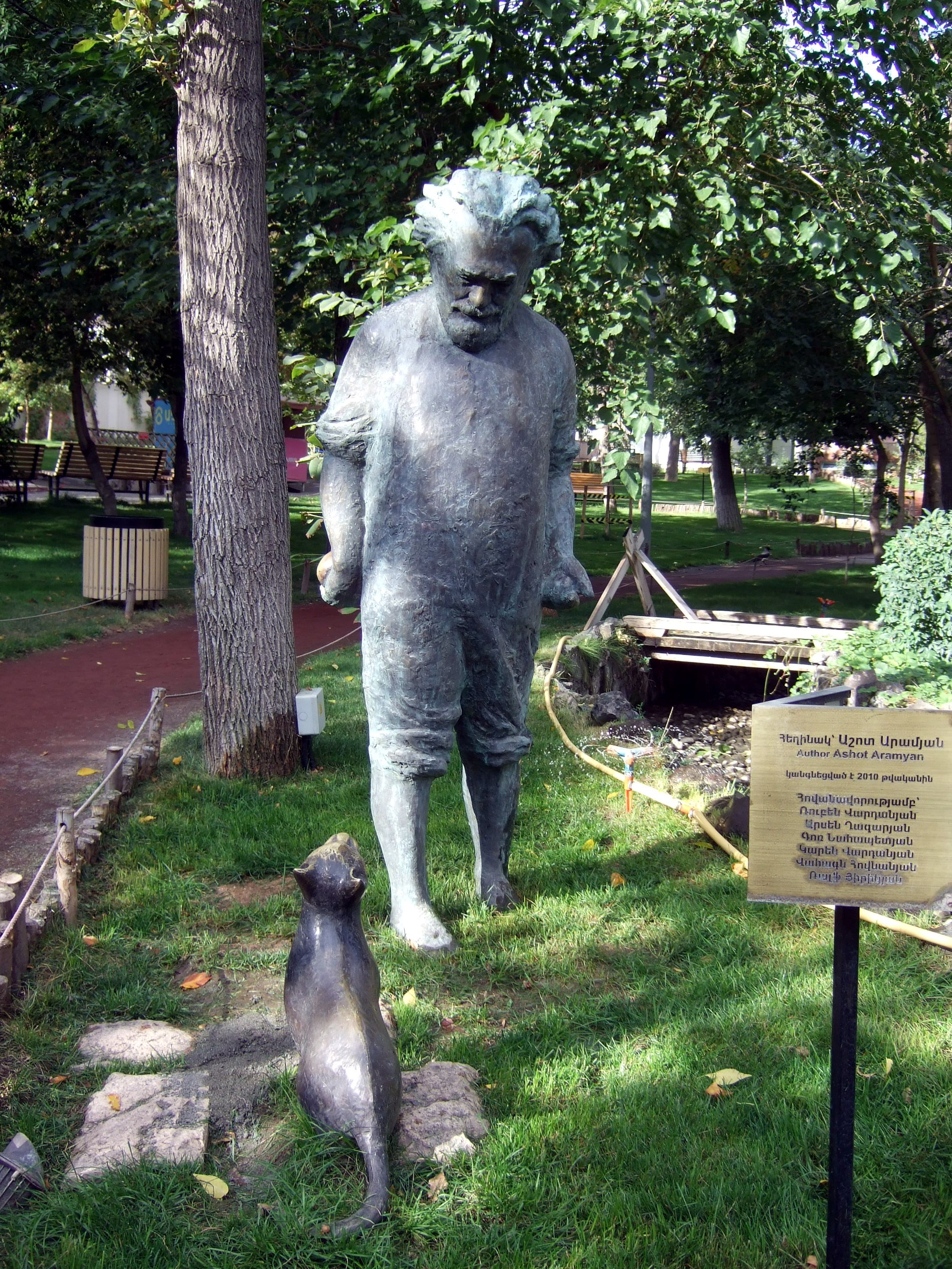 Statue of Gevorg Emin in Siraharneri aygi, Yerevan